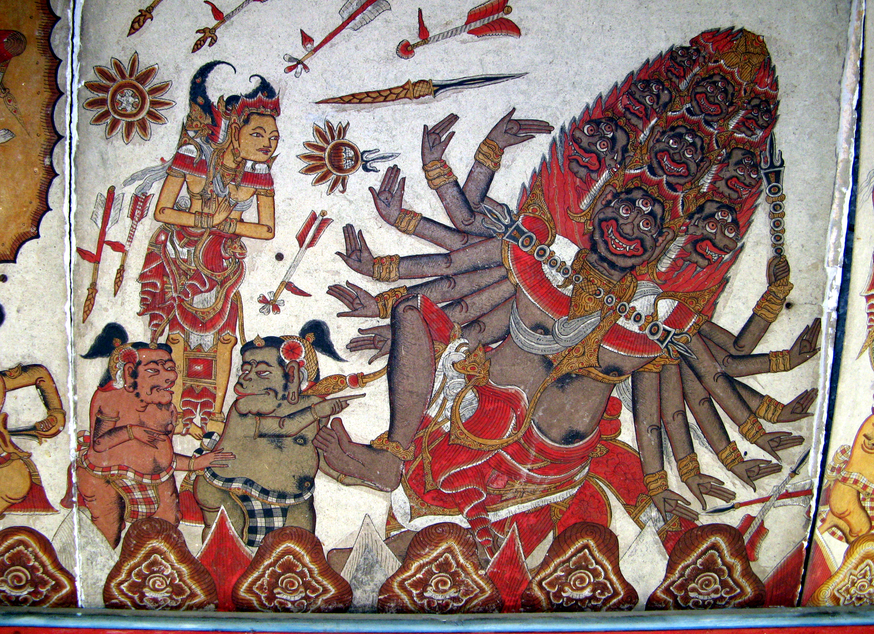 Ravana Fails To Harm Rama. Bale Kambang, Taman Gili. Semarapura, Bali. In this Ramayana episode, the demon king Ravana assaults Rama with every kind of weapon imaginable, but they all fall harmlessly around the invulnerable hero. The scene is painted in wayang style.